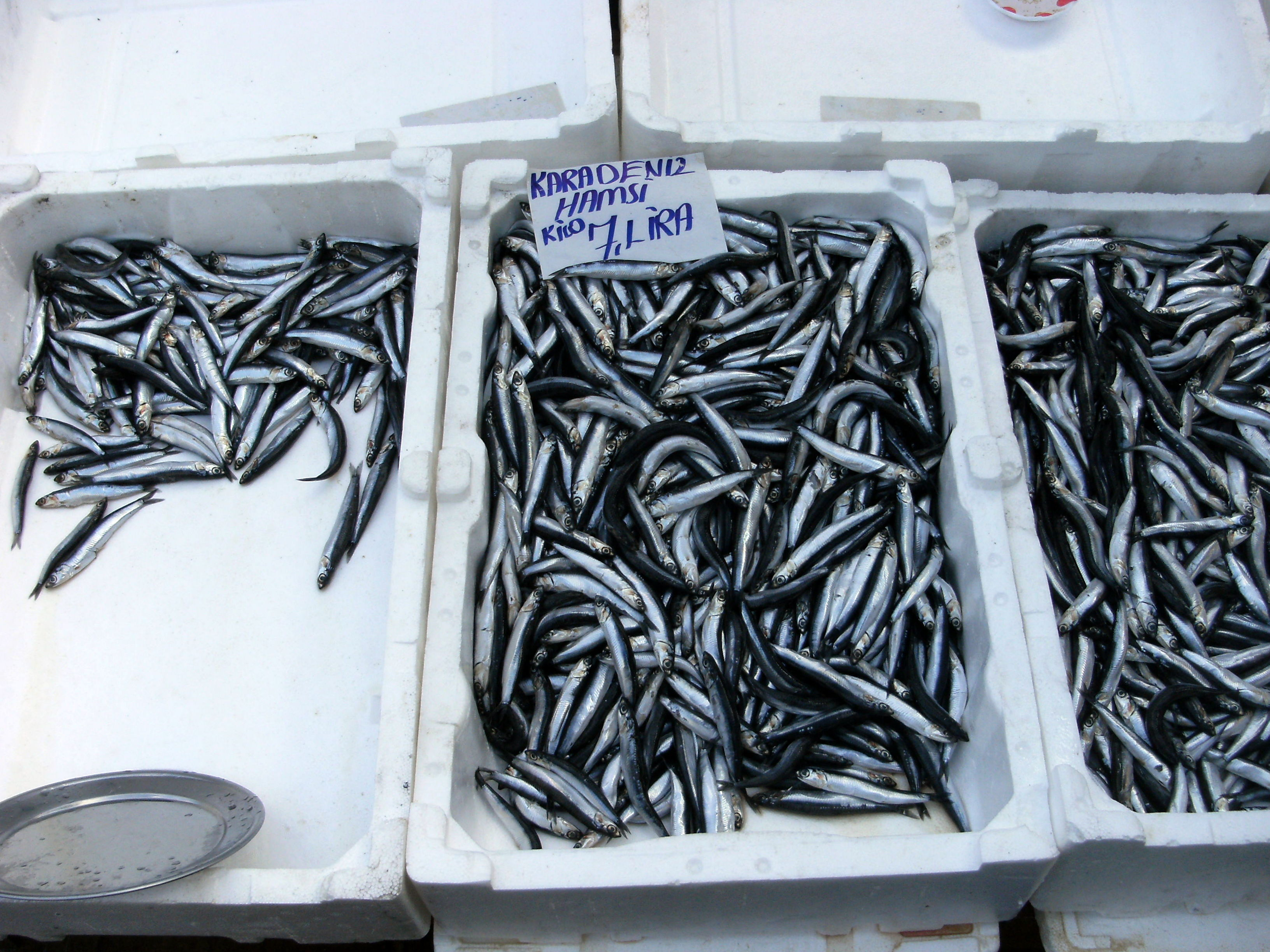 Engraulis encrasicol, Istanbul.